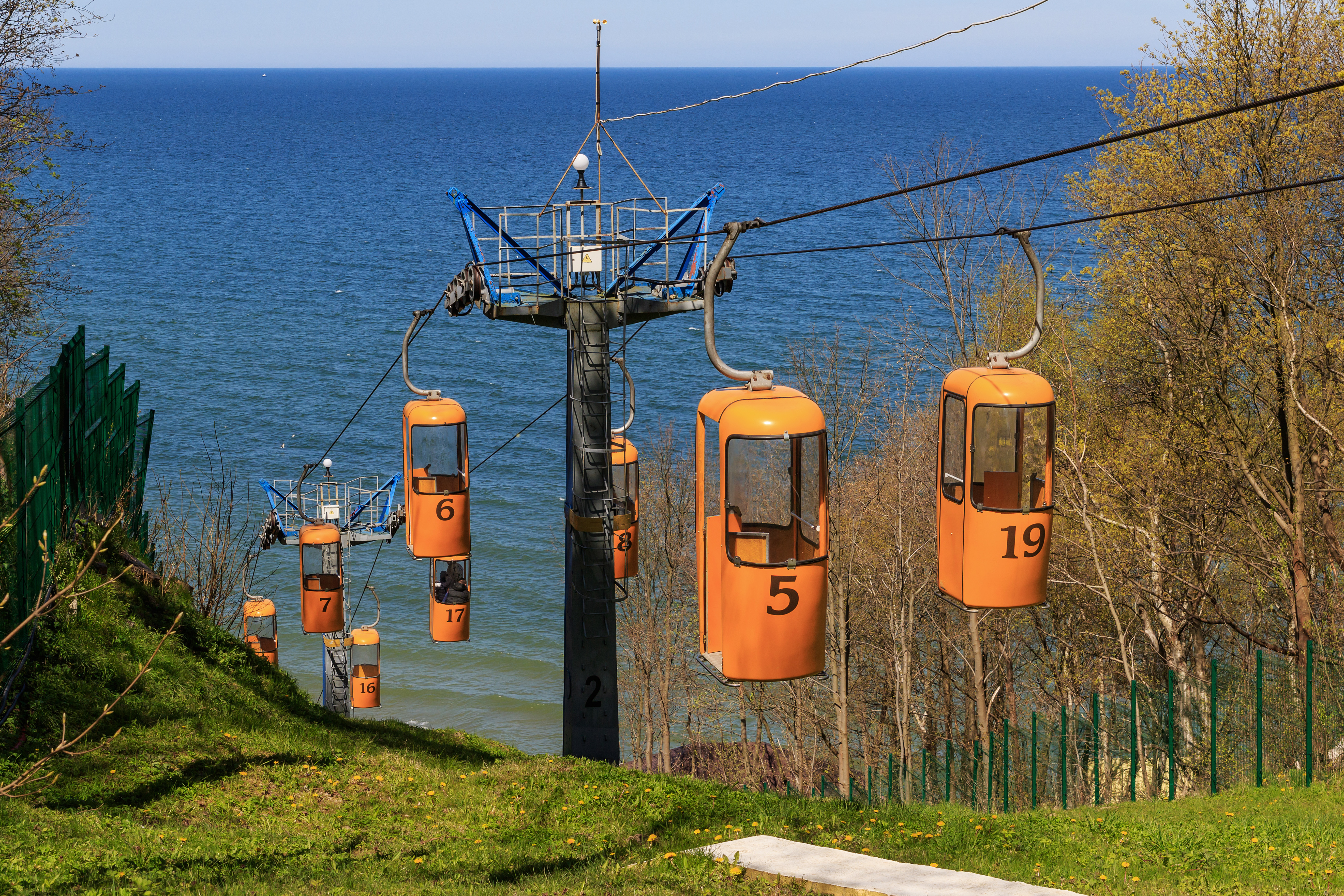 Cableway to the beach in Svetlogorsk formerly Rauschen / Kaliningrad Oblast (Russia).